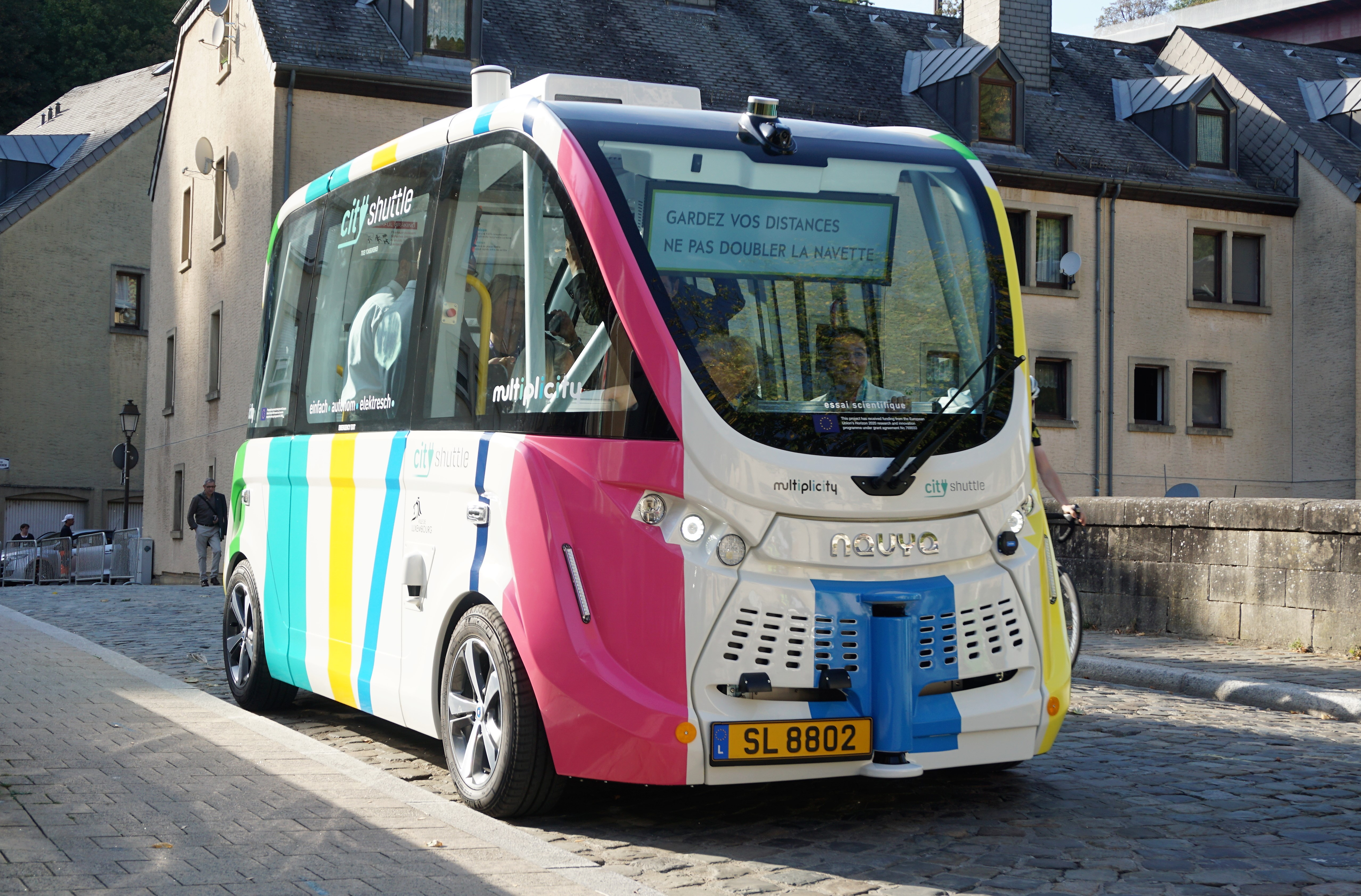 Luxembourg, "City Shuttle", an electric & autonomus shuttle.